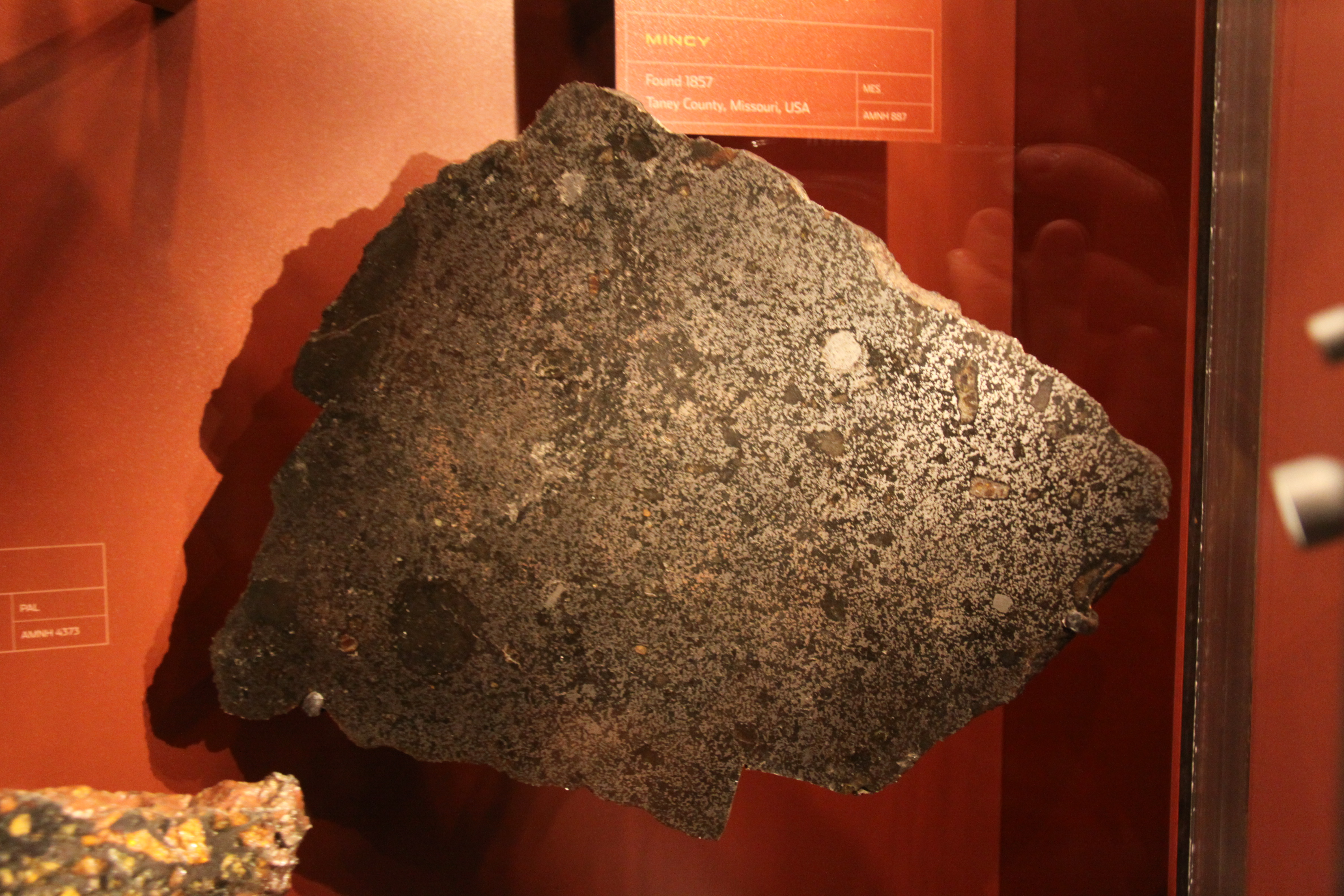 Mesosiderite Mincy, found in 1857. American Museum of Natural History